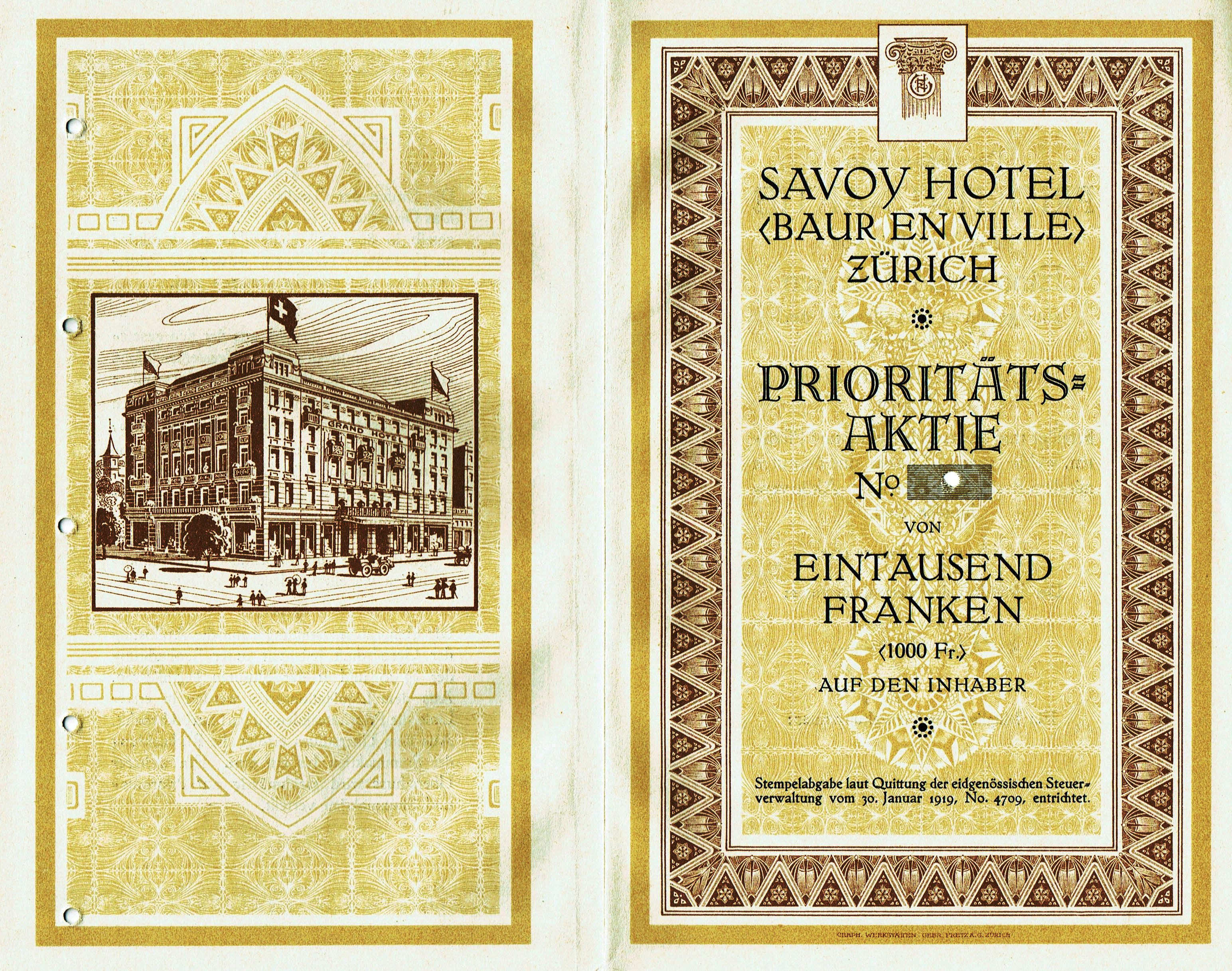 Share of the Savoy Hotel (Baur en Ville) Zürich, issued 30. January 1919